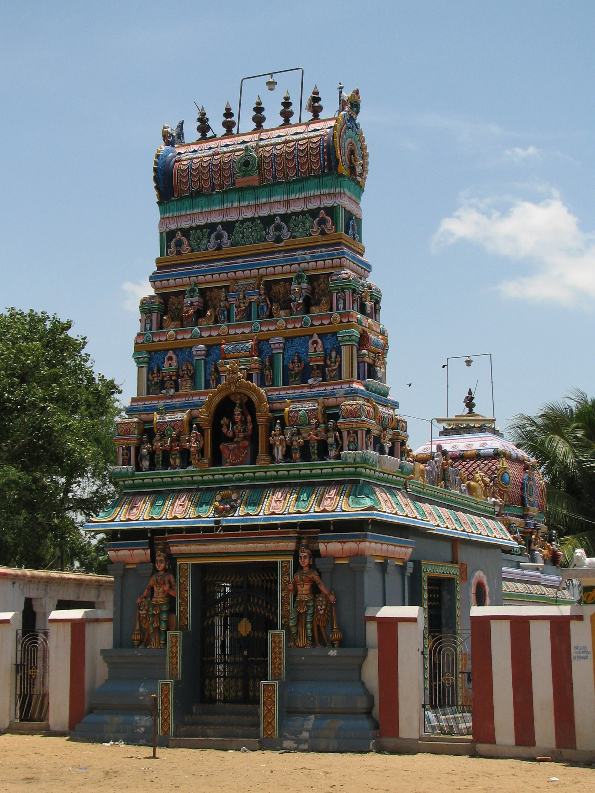 The ornate and brightly-painted gate and gopuram of a small Tamil temple, in rural India near Pulicat Lake.